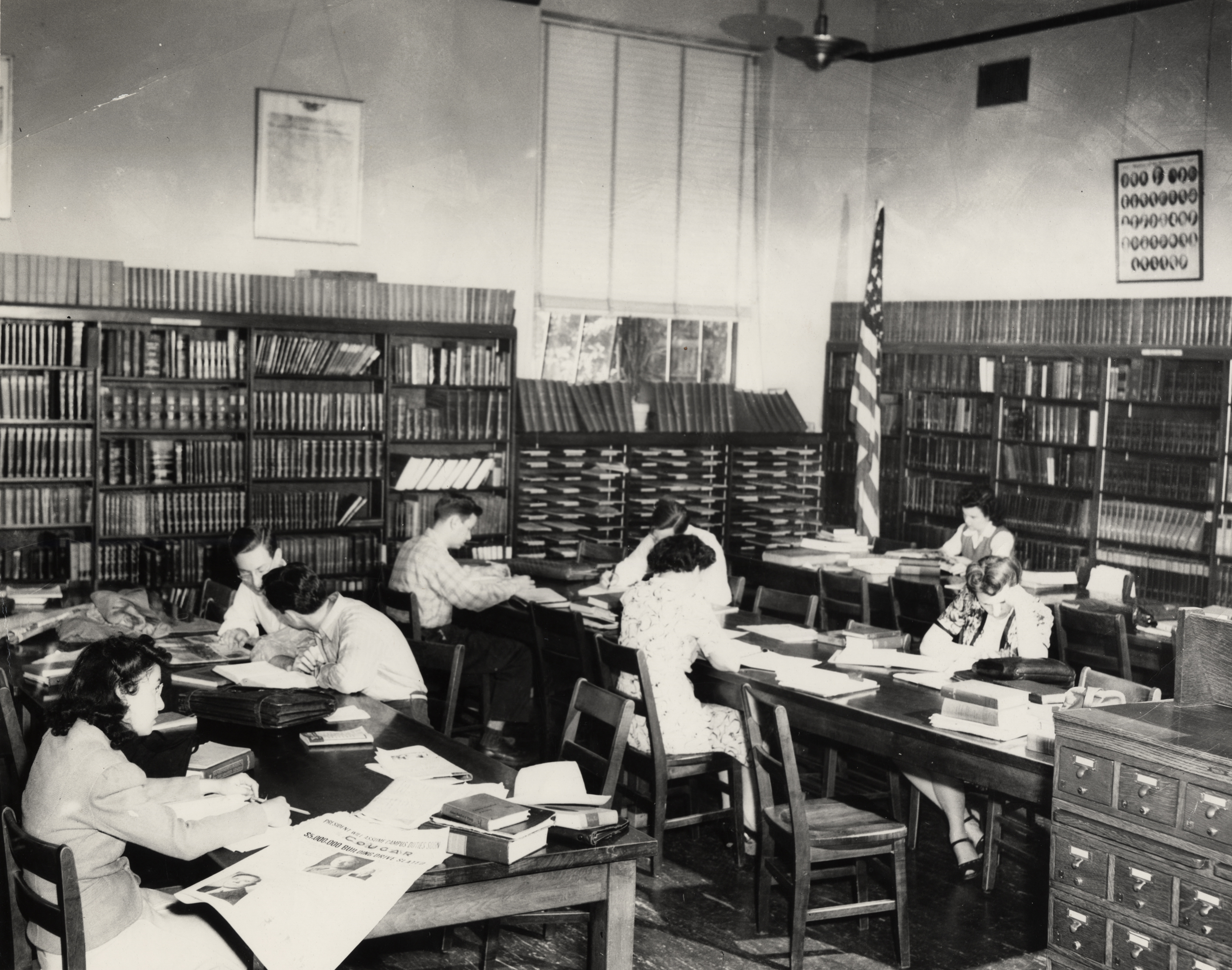 The University of Houston Library in its original location at the permanent location of the campus. It was housed in the Roy G. Cullen Memorial building until 1950, when it moved to M.D. Anderson Memorial library building, its current location.